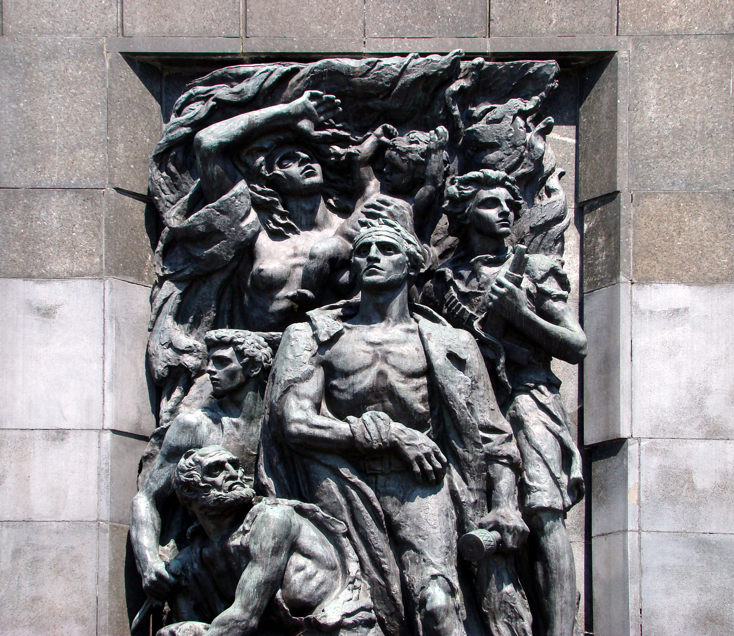 Warsaw Ghetto Uprising Monument